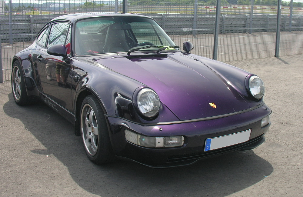 Porsche 964 Jubimodell. Photo taken on Nürburgring.